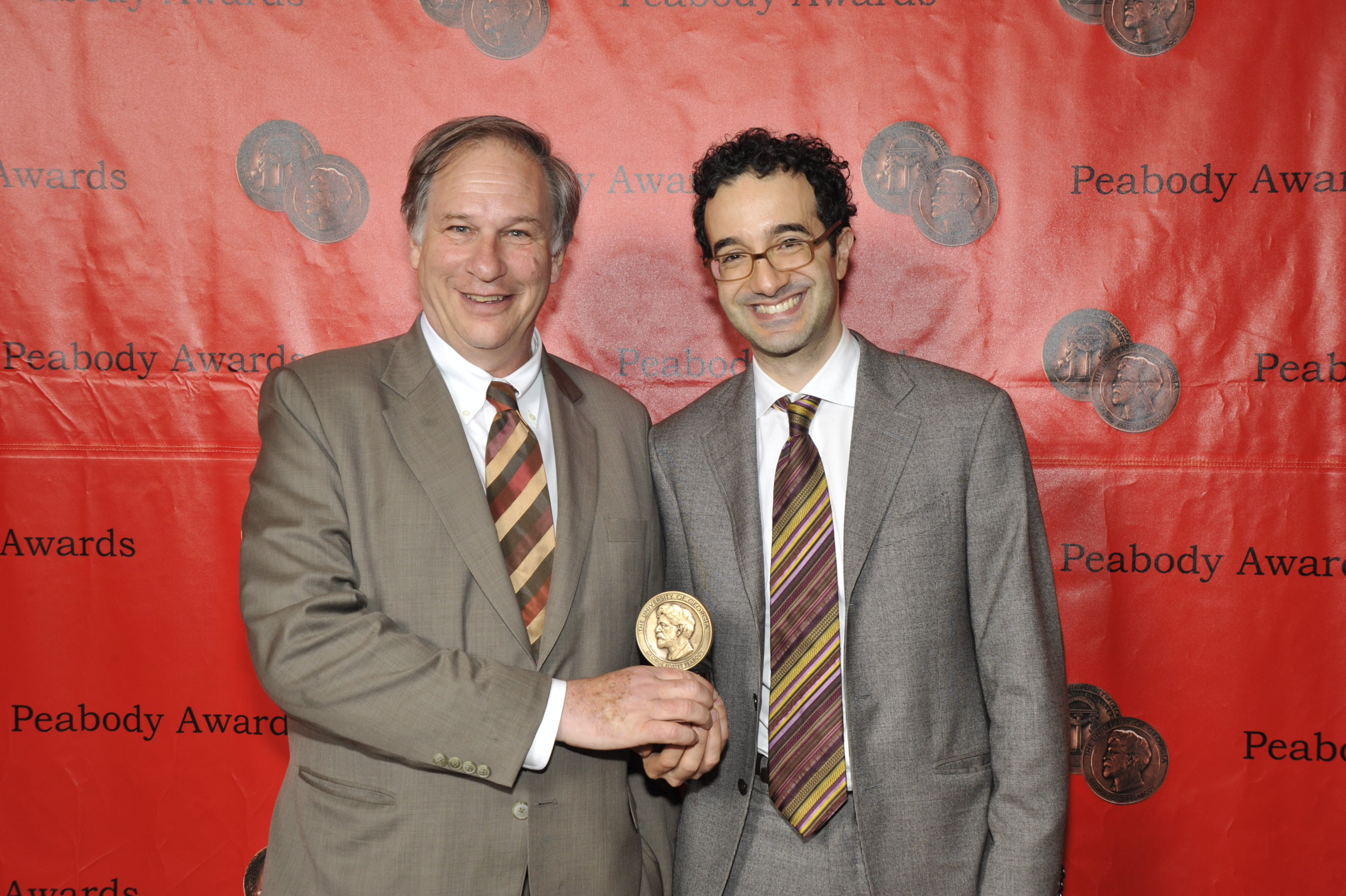 PHOTO CREDIT: ANDERS KRUSBERG / PEABODY AWARDS Robert Krulwich and Jad Abumrad with the award for Radiolab 70th Annual Peabody Awards Luncheon Waldorf=Astoria Hotel May 23, 2011